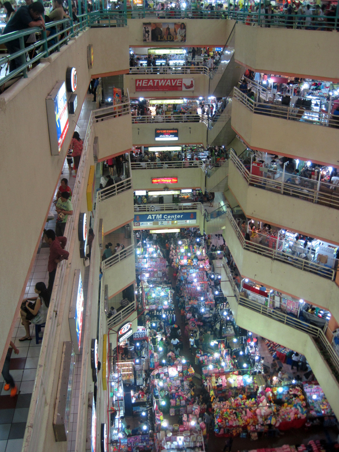 Mangga Dua Mall, North Jakarta, Indonesia